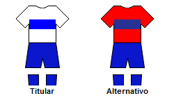 Local y Visita